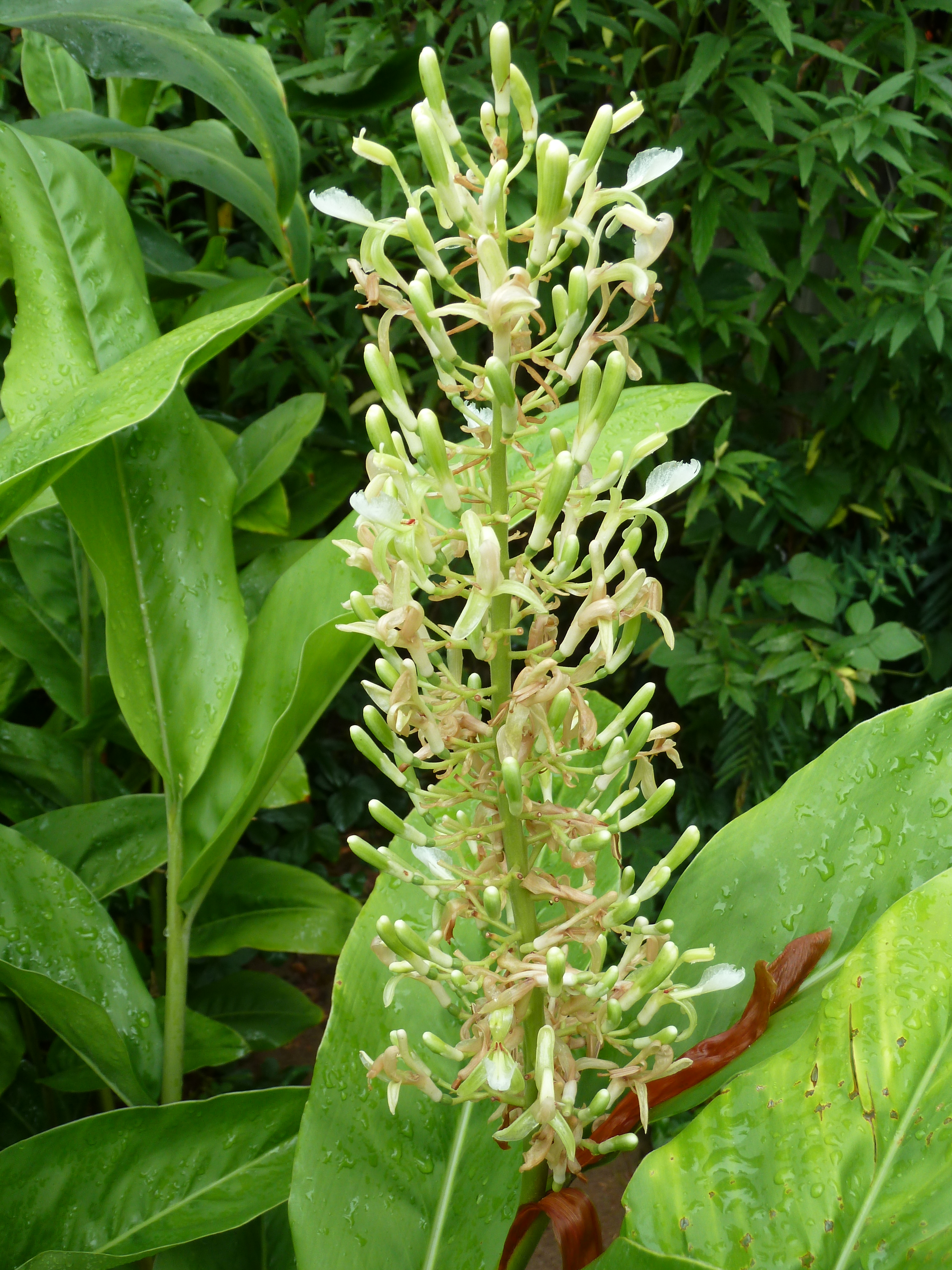 Inflorescence of a Greater galangal in the Manie van der Schijff Botanical Garden, Pretoria